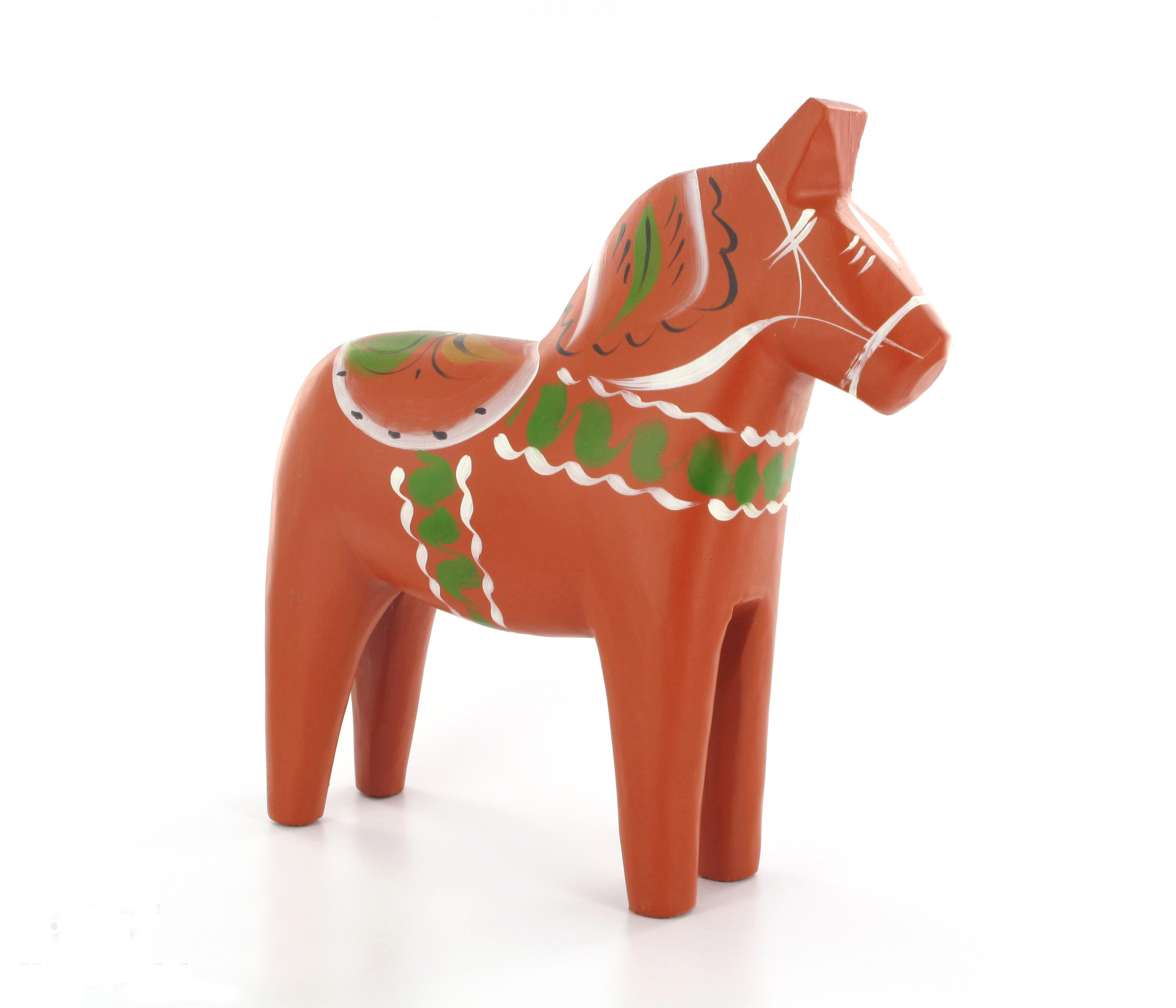 Image of a Swedish wooden Dalahäst horse taken with a PackshotCreator photo studio by Creative Tools AB.